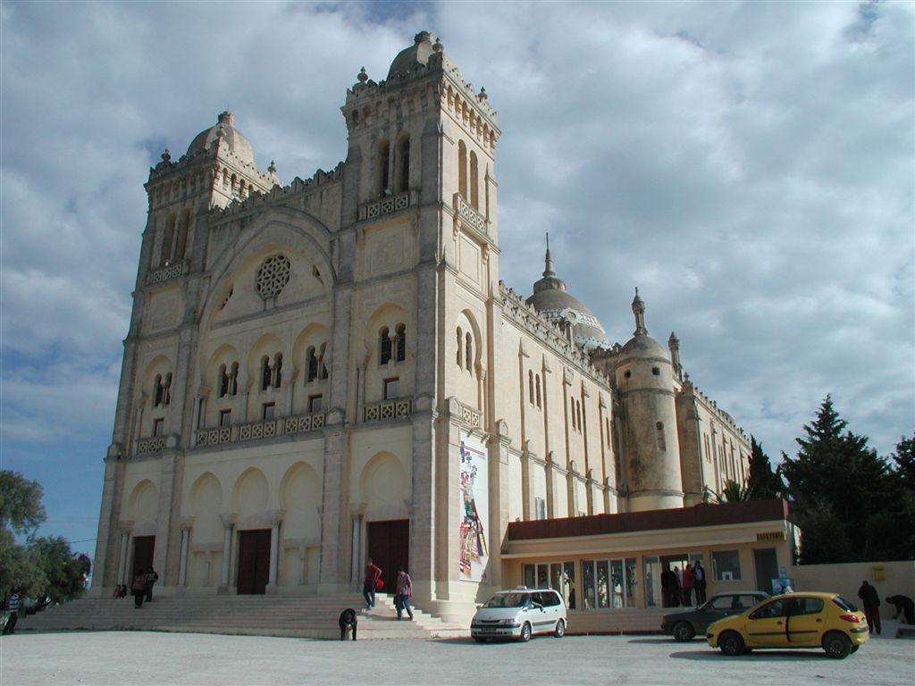 Cathedral Saint-Louis of Carthage - Tunisia